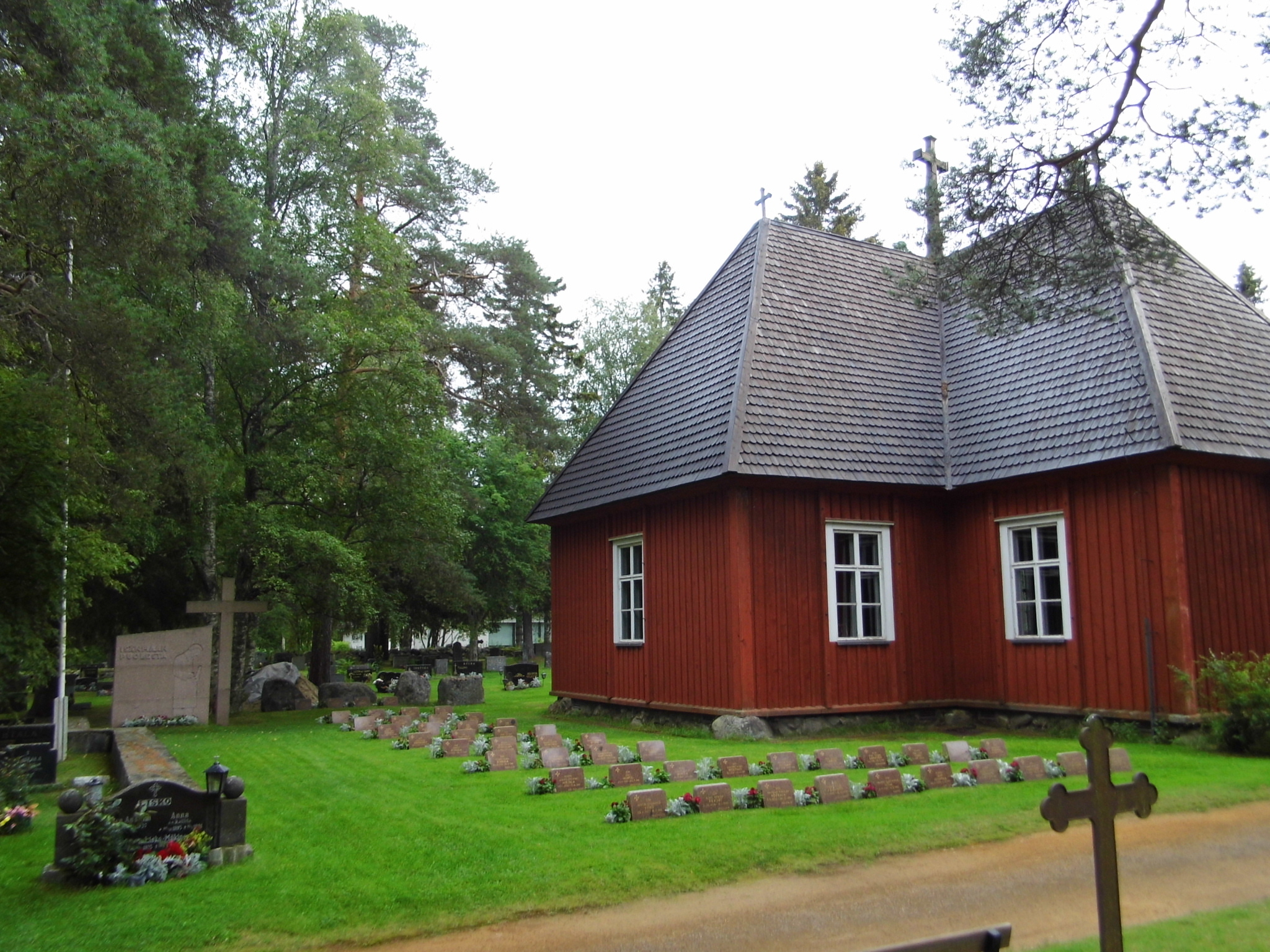 Military cemetary at church in Revonlahti, Siikajoki, Finland